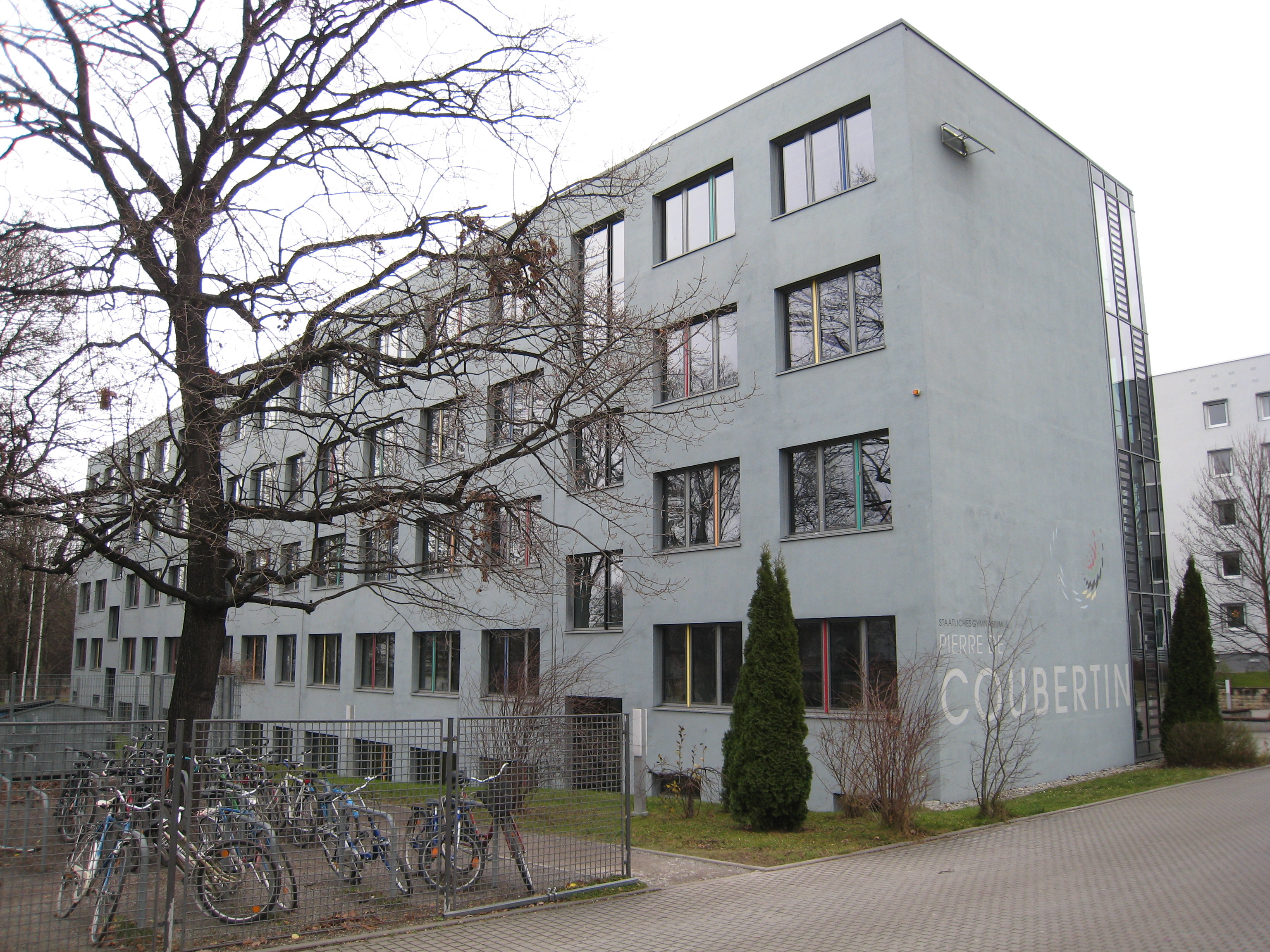 Sport school Pierre-de-Coubertin Erfurt, Mozartallee 4